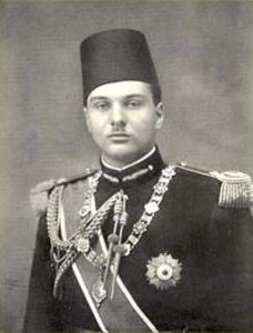 Photograph of Farouk I (1920-1965), King of Egypt (1936-1952).